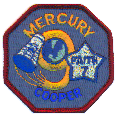 Mercury 9 patch It should be noted that that it wasn't until Gemini 5 that mission patches were used. This was created much after the actual flight.